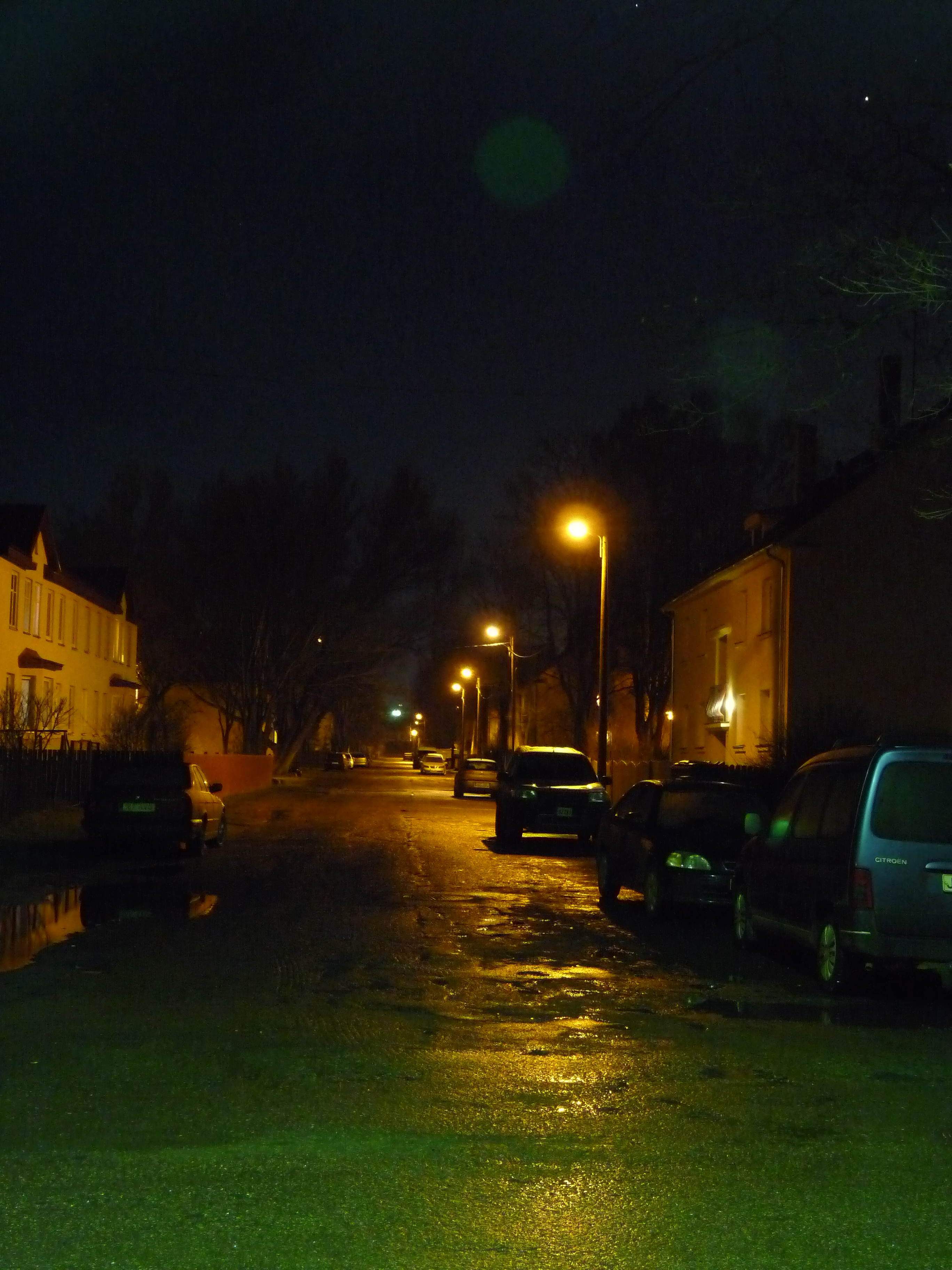 Rukki street in Tallinn, Estonia